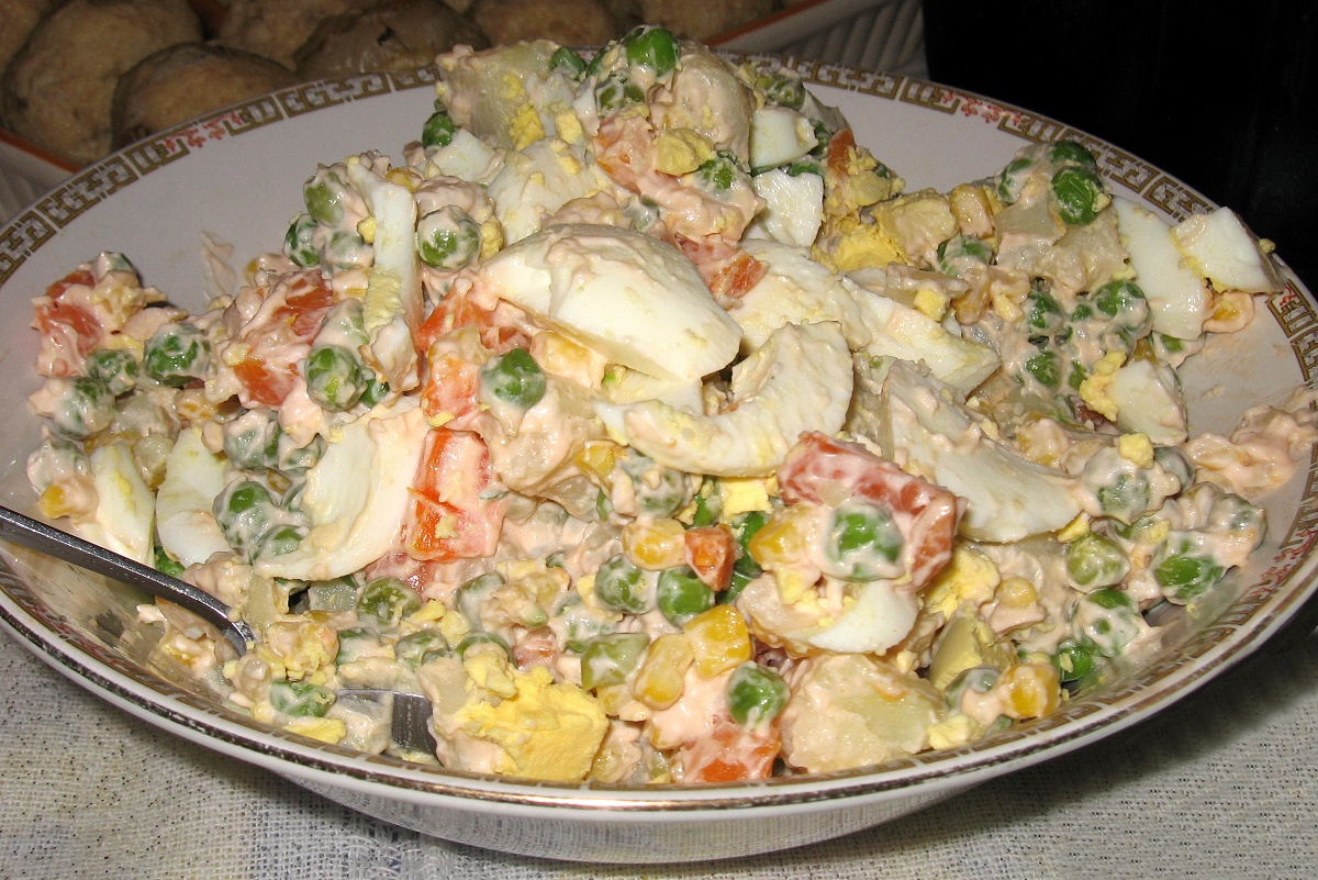 Retouched version of Image:Mayonnaise salad.jpg, which has the following description: Mayonnaise salad (Russian salad). I took this picture on Passover evening ("Leil Haseder").